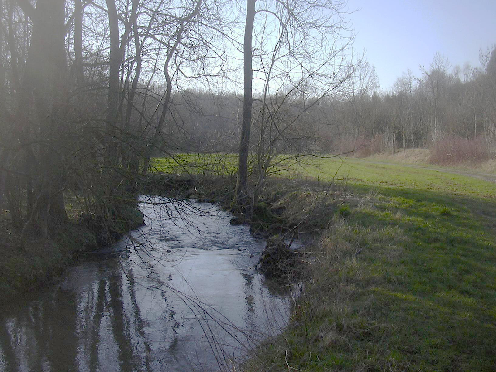 The Schozach river near the station of the same name